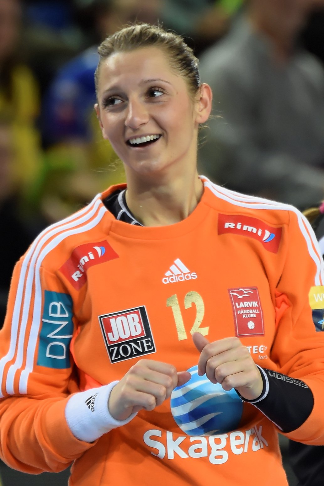 Alma Hasanic - EHF Champion's League, Metz Handball / Larvik HK - 15 november 2014.